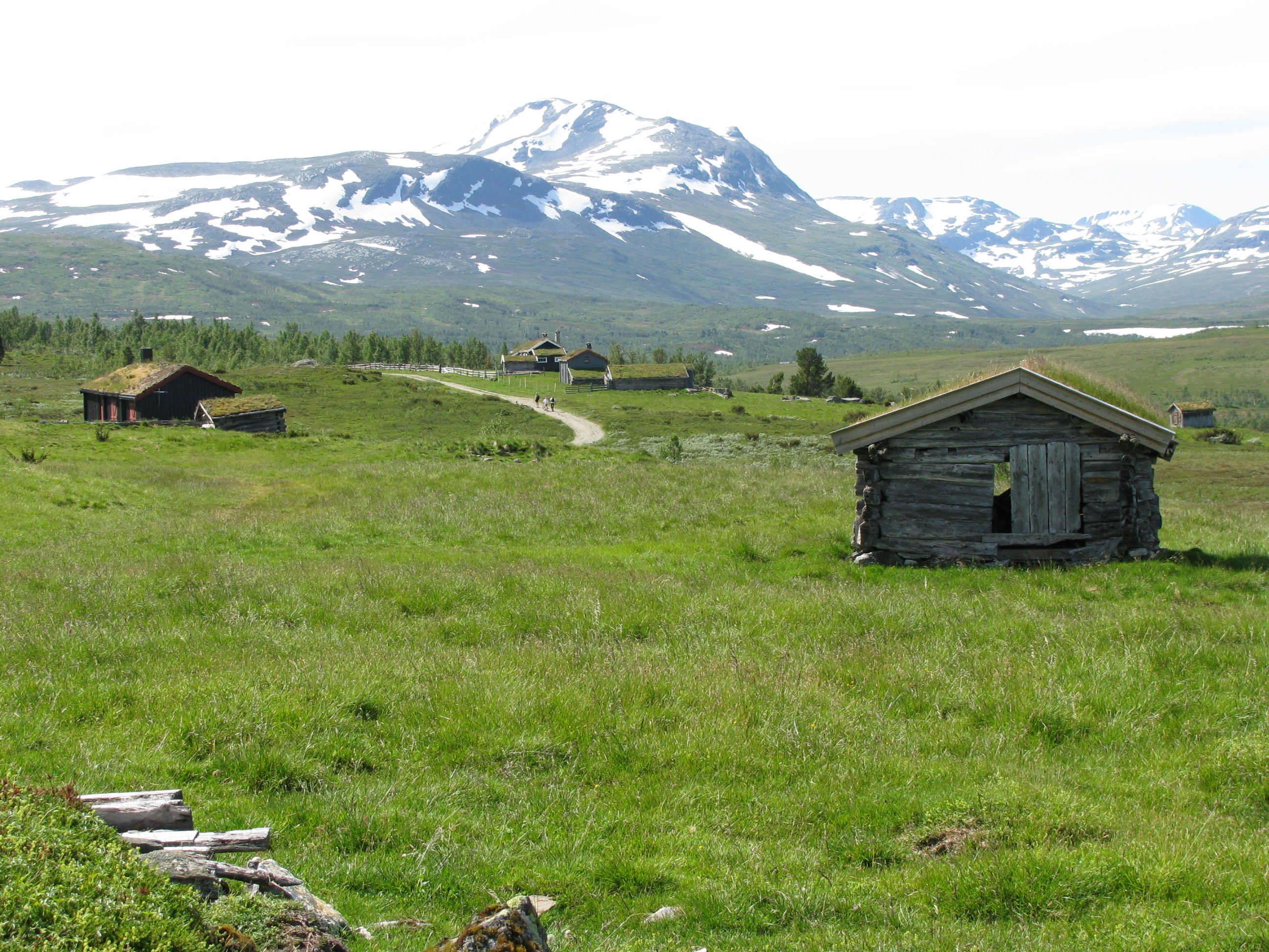 Jøldalen valley in the Trollheimen mountain range. Picture taken along the path which goes from Jølhaugen (car park) to Jøldalshytta mountain lodge (not in picture). This valley was, and partly still is, used as pasture. Rennebu municipality, Sør-Trøndelag county, Norway.